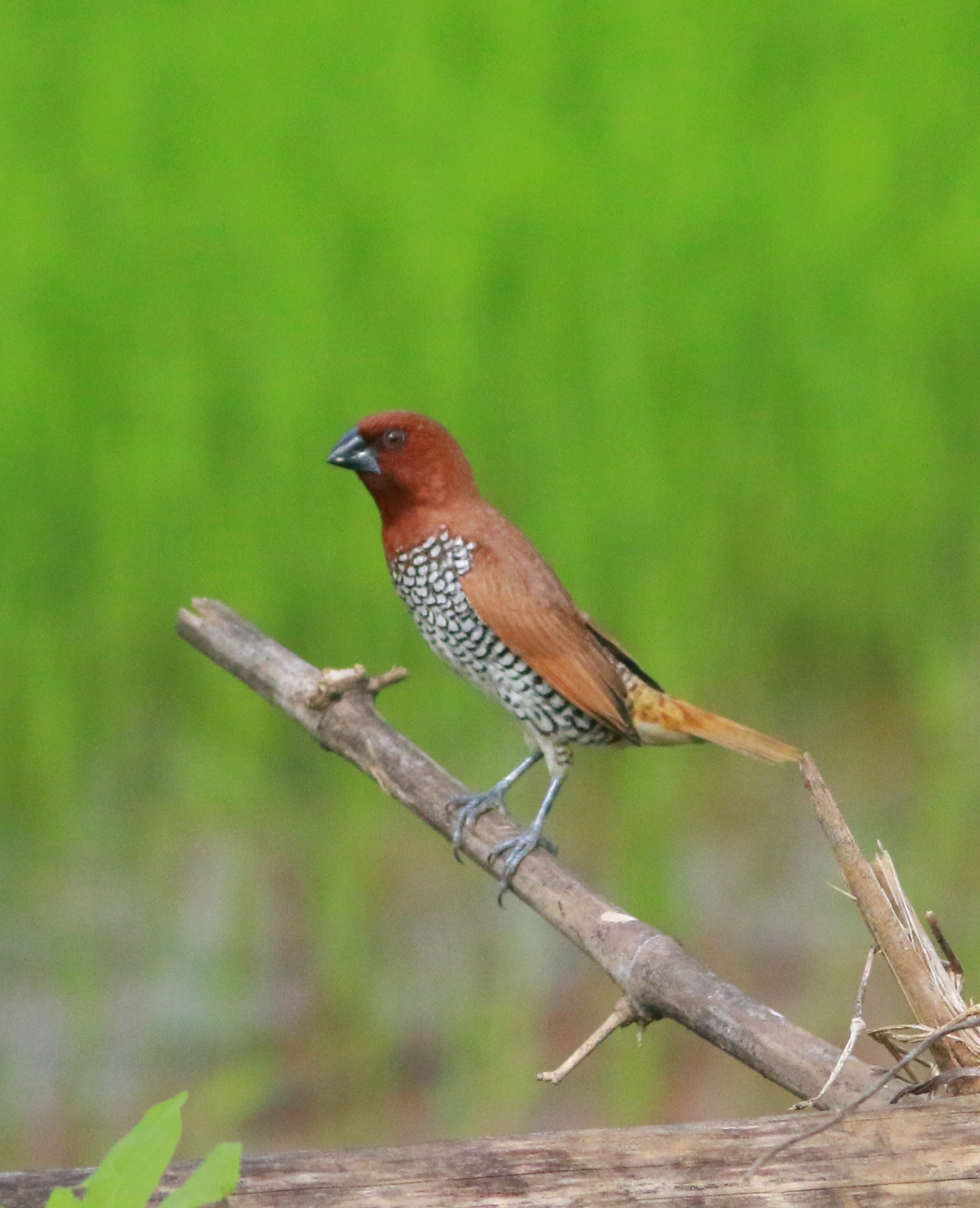 Scaly-breasted Munia